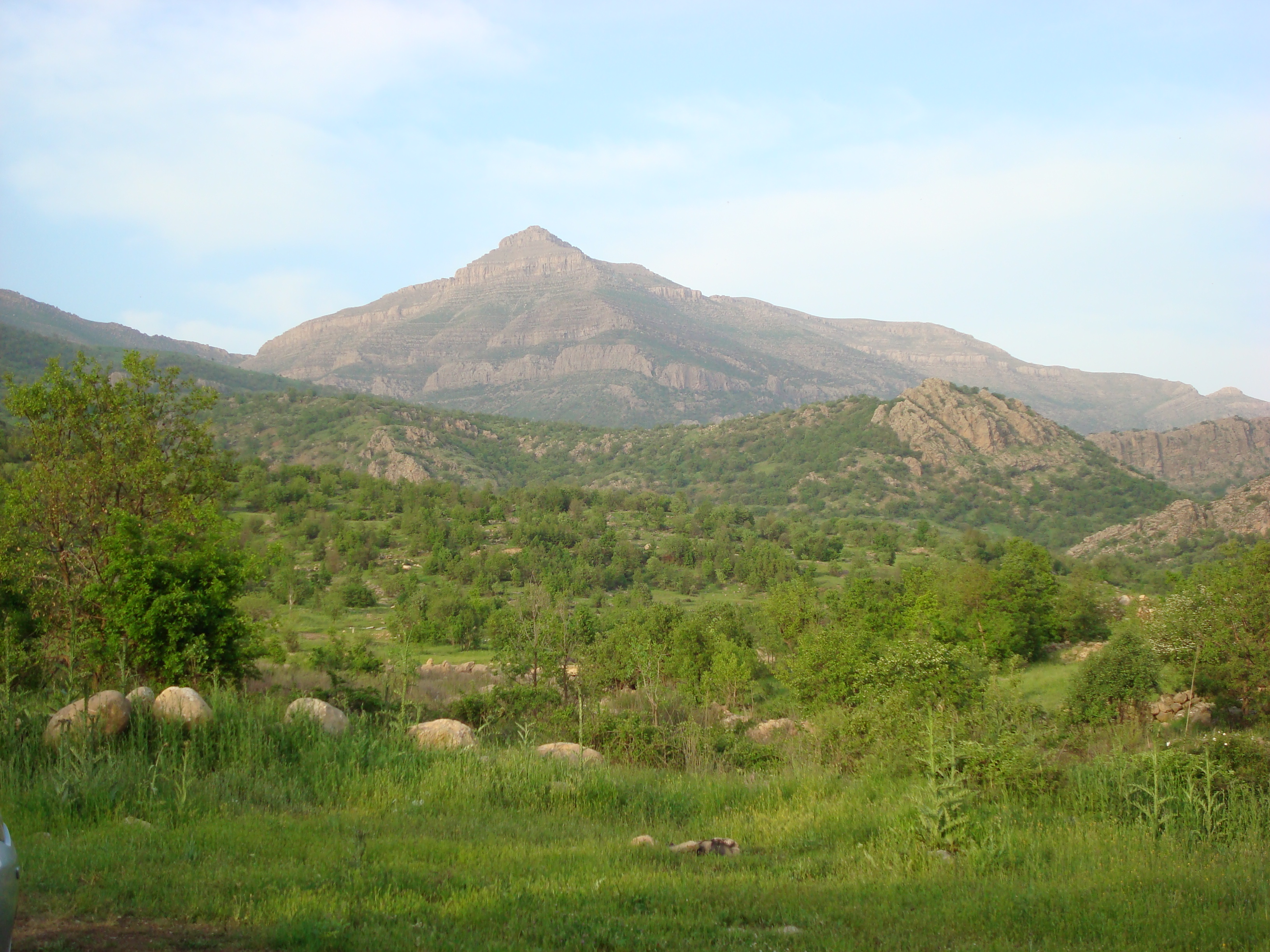 Mount Butin (Kurdish: بوتین, Bûtîn ) also known as Mount Kurri Butinah (Kurdish: سەرێ کوڕێ بوتینی, Serê kuřê Butînê ) located on the Pendro terrain in Kurdistan. The mountain lies 2 km (1 mi) to the northeast of Pendro and some 100 km (62 mi) from Hawler Kurdî: چیای بوتین چیایەکی سرەنج راکیشی دەڤری مزوری بالایە کە دەکەویتە گوندی پێندرو بەرزایەکەی ٢٥٣٤ م